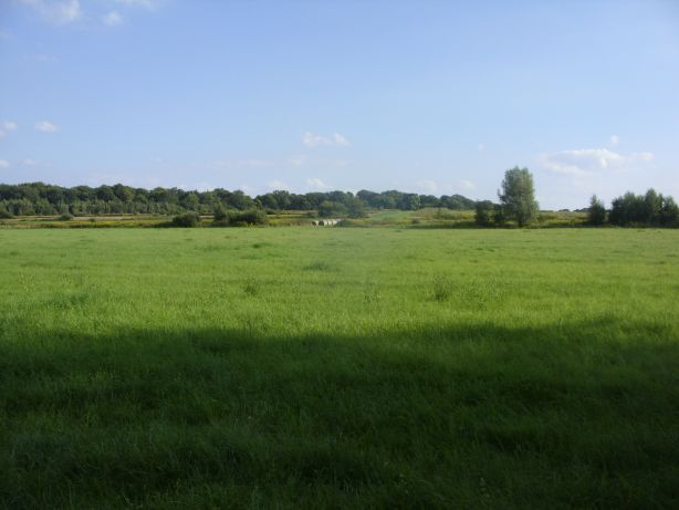 Nature reserve Riddagshausen